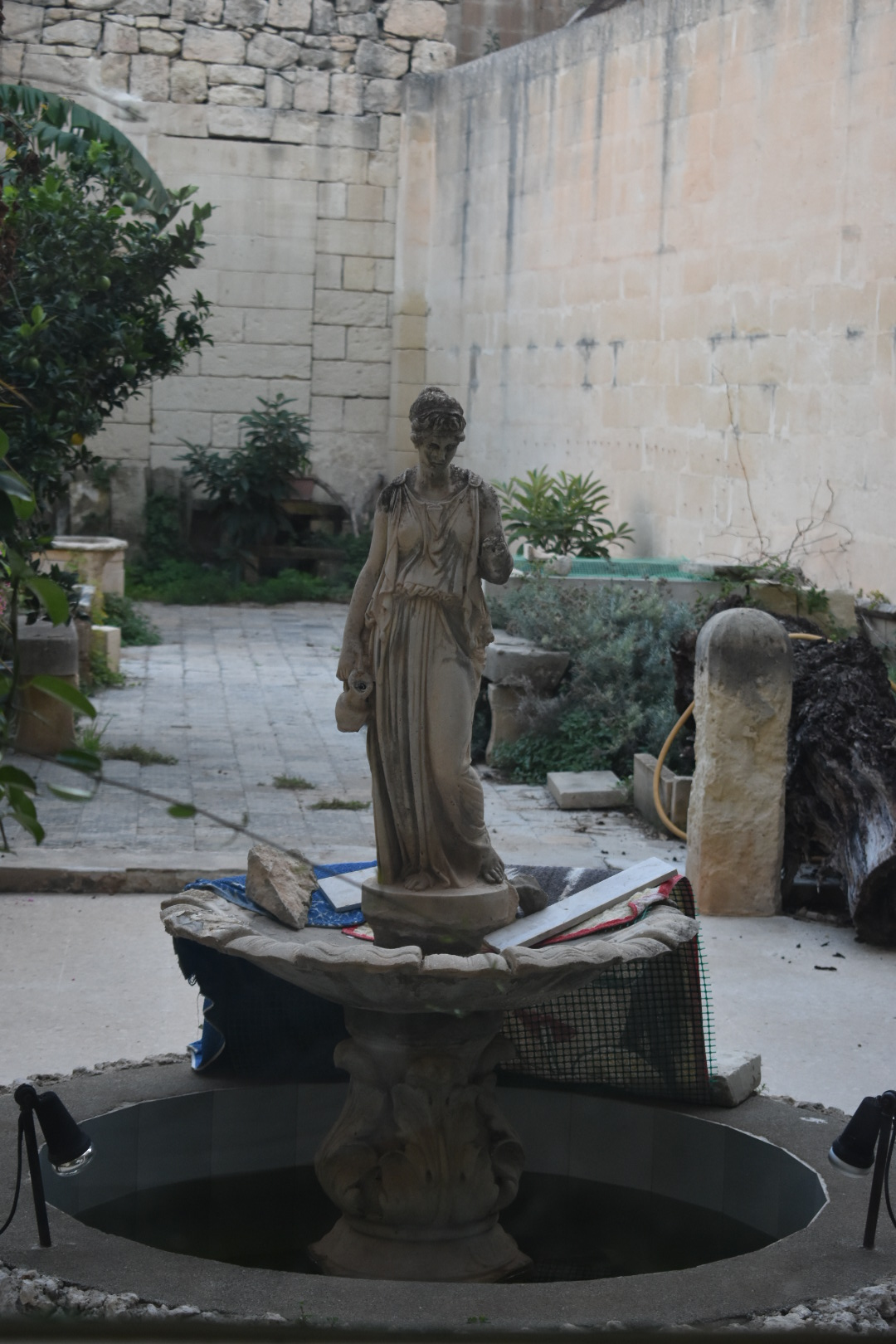 Villa Betharram